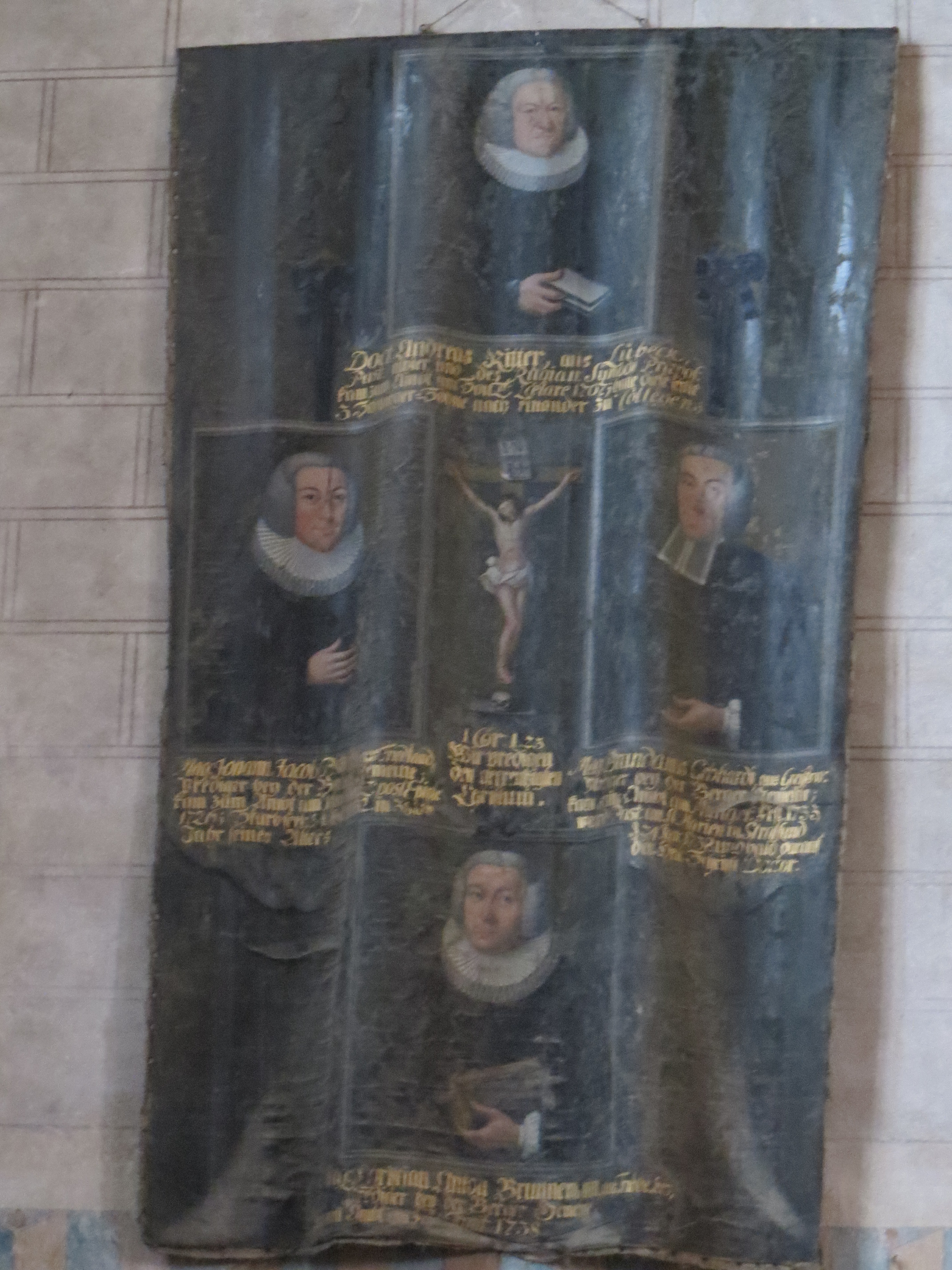 Interior of Marienkirche Bergen auf Rügen